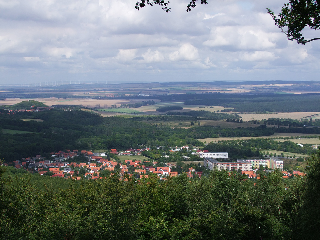 View of Blankenburg (Harz), Oesig, seen from Wilhelm-Raabe-Warte/Eichenberg